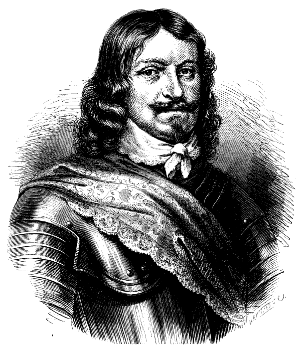 Swedish Field Marshal Lennart Torstenson